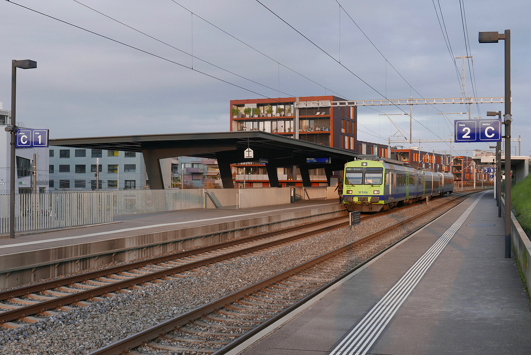 Bern Brünnen Westside railway station.